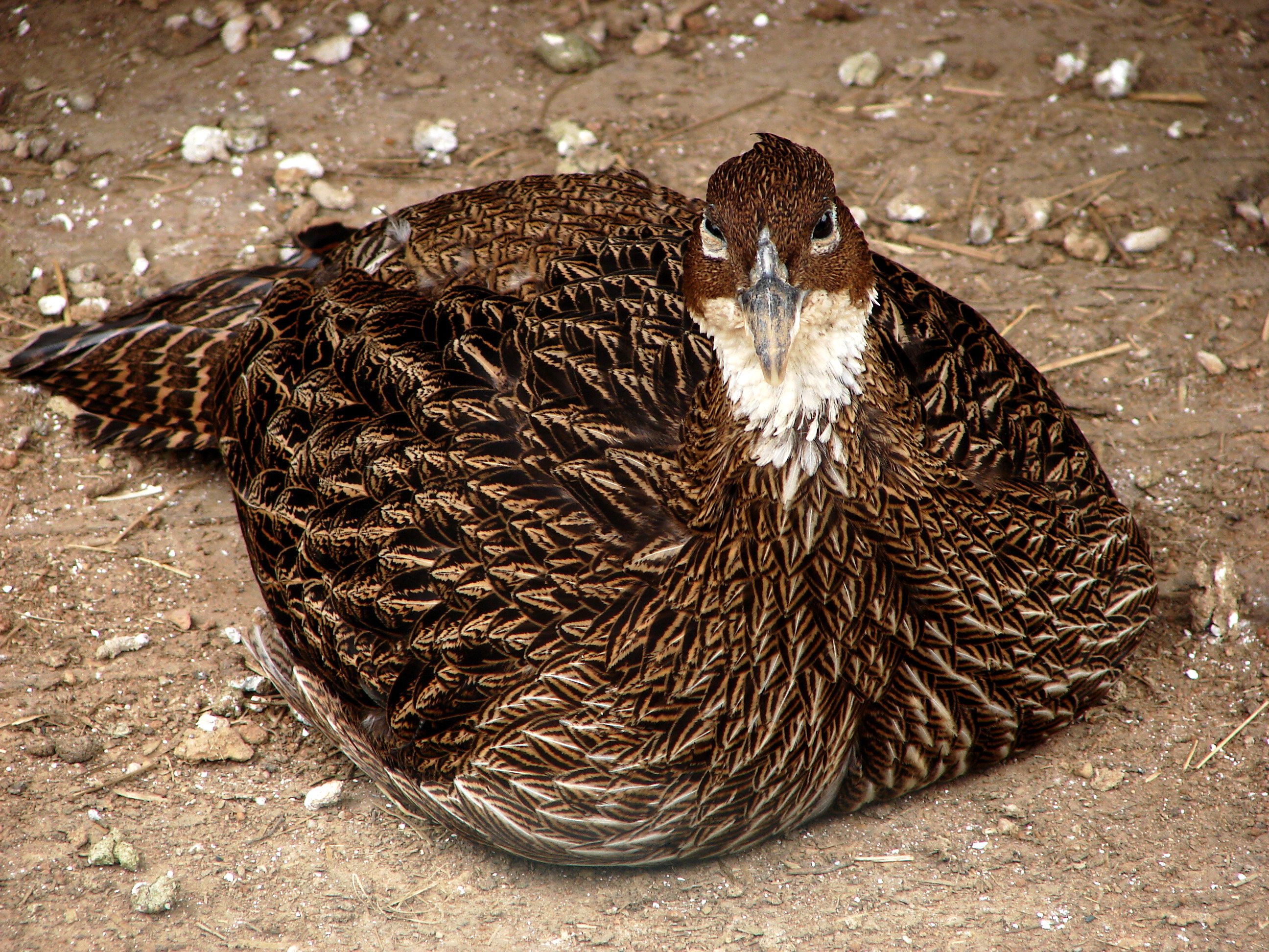 Himalayan Monal at Bogazici Zoo